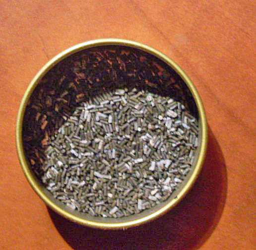 Poudre B single-base smokeless powder flakes